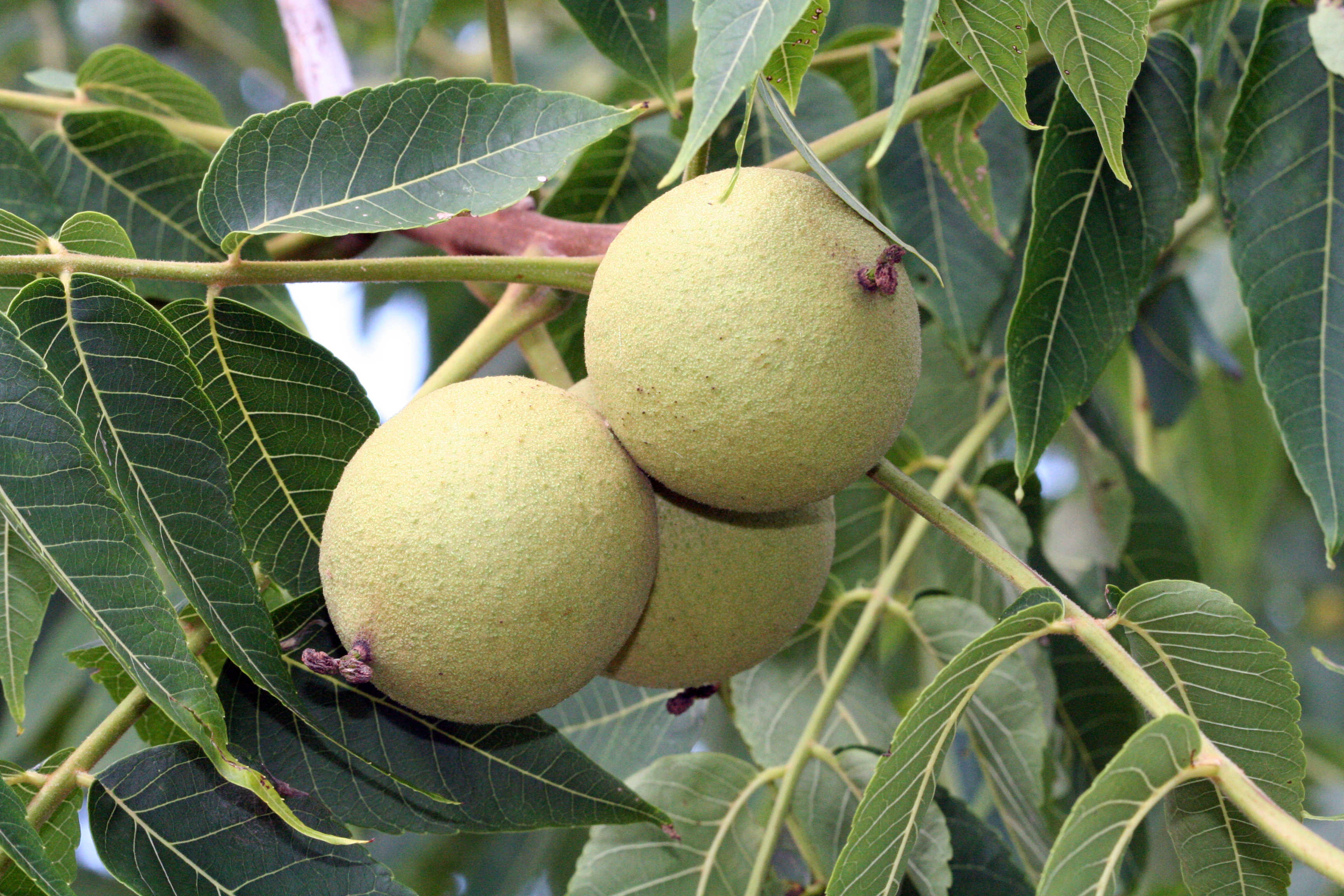 Juglans nigra - black walnut - at the Skaneateles Conservation Area, Onondaga County, New York